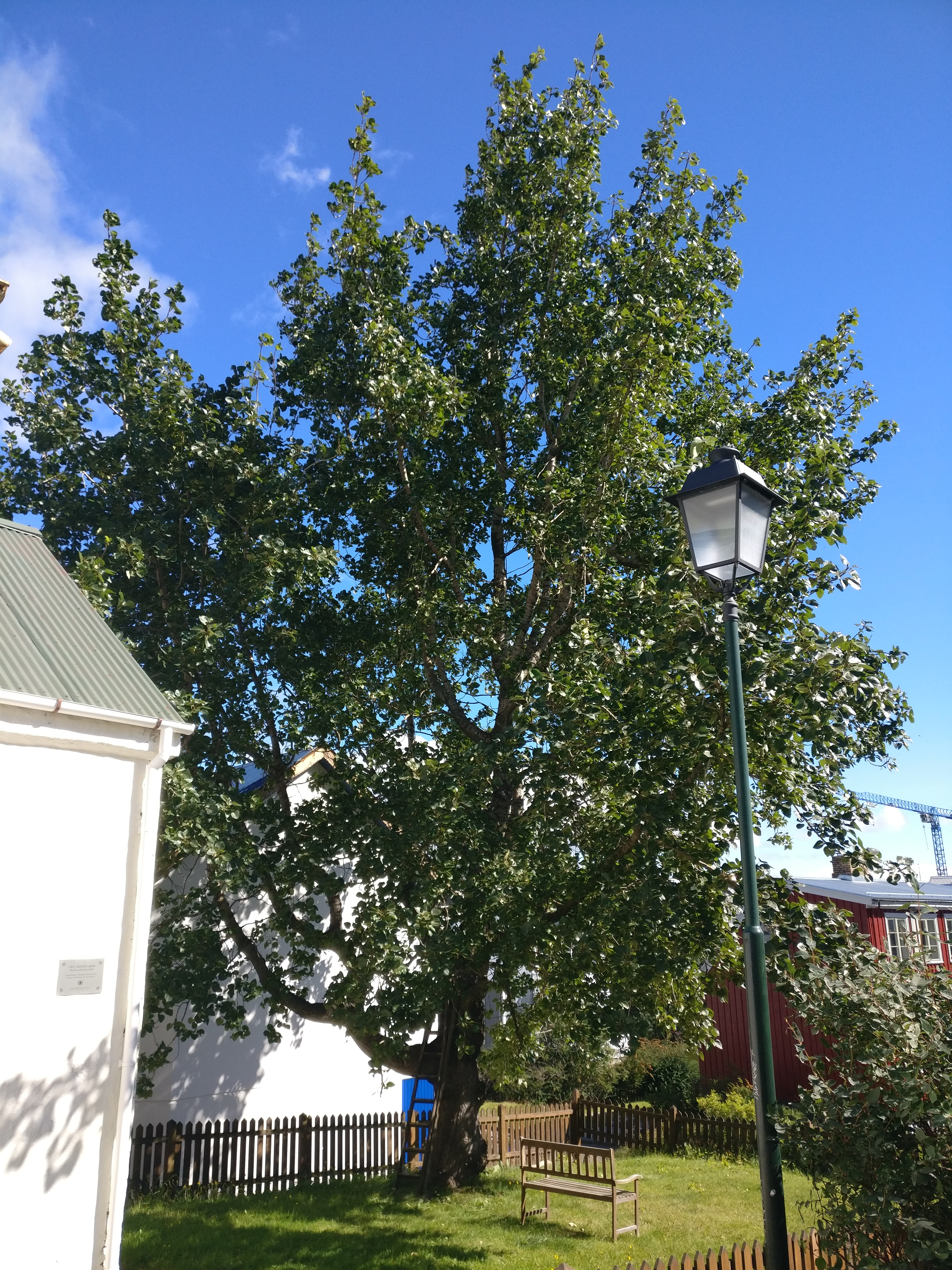 Populus balsamifera ssp. trichocarpa